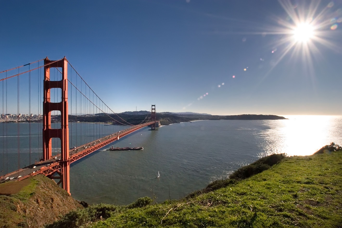 The Golden Gate Bridge and the City of San Francisco as seen from the Marin Headlands.